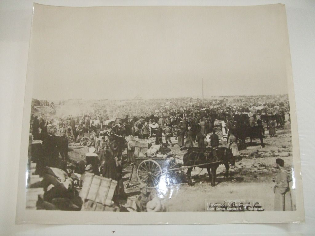 January 1920. Evacuation of Odessa. Refugees of Odessa with their families and White Army troops of Russia trying to flee from Red Army, approaching Dniestr river, trying to cross Romanian boarder. Picture was taken by USA photojournalist, working for Underwood & Underwood Co.